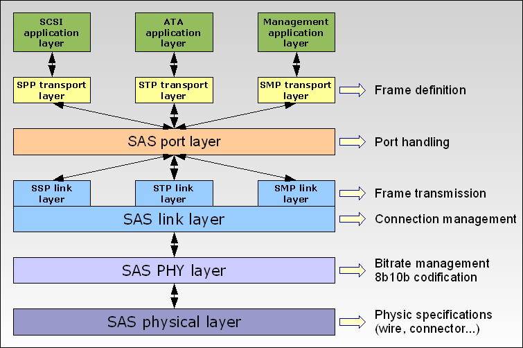 Architecture of SAS layers.